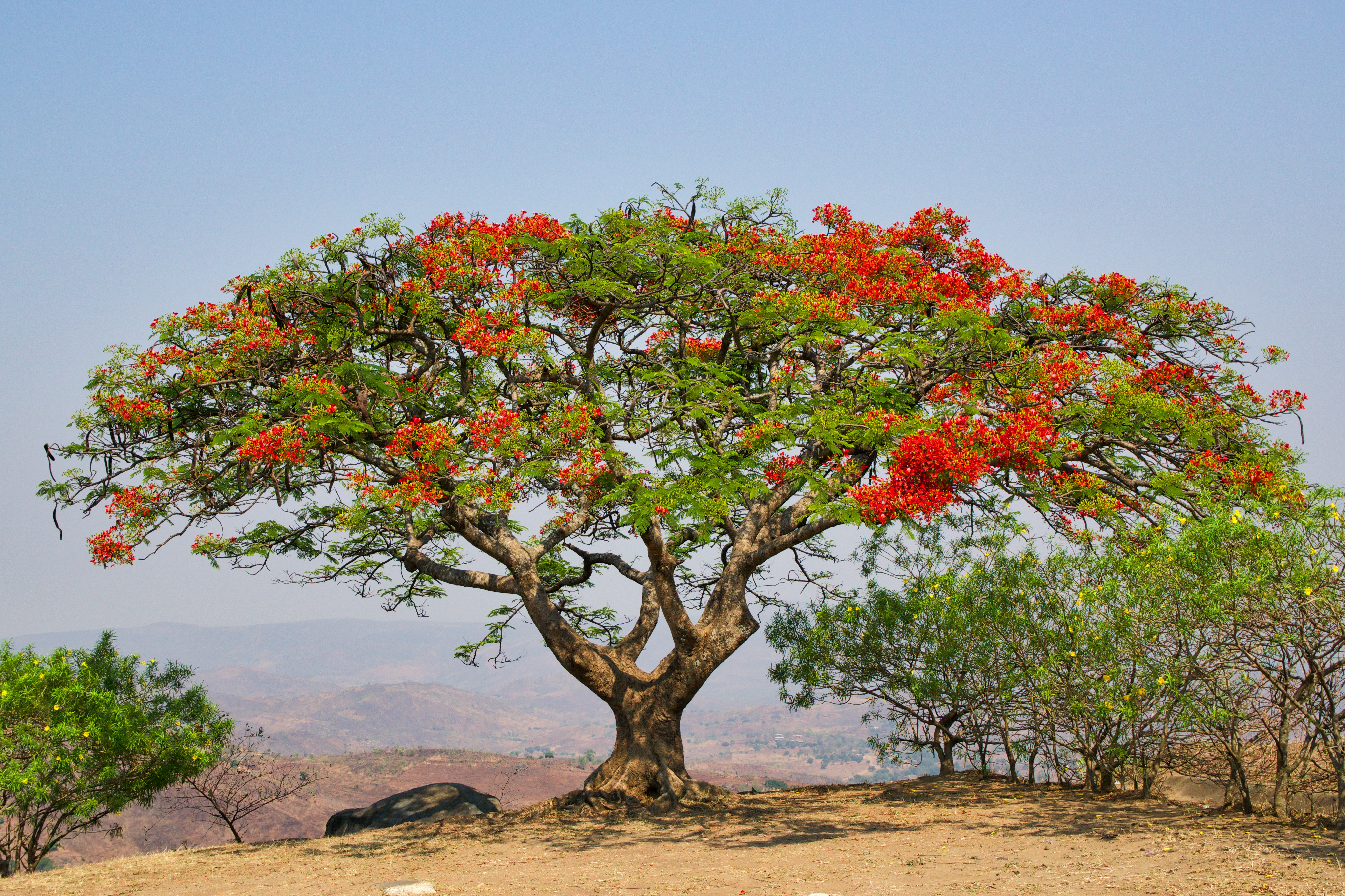 Tree in bloom - Majete wildlife reserve - Malawi